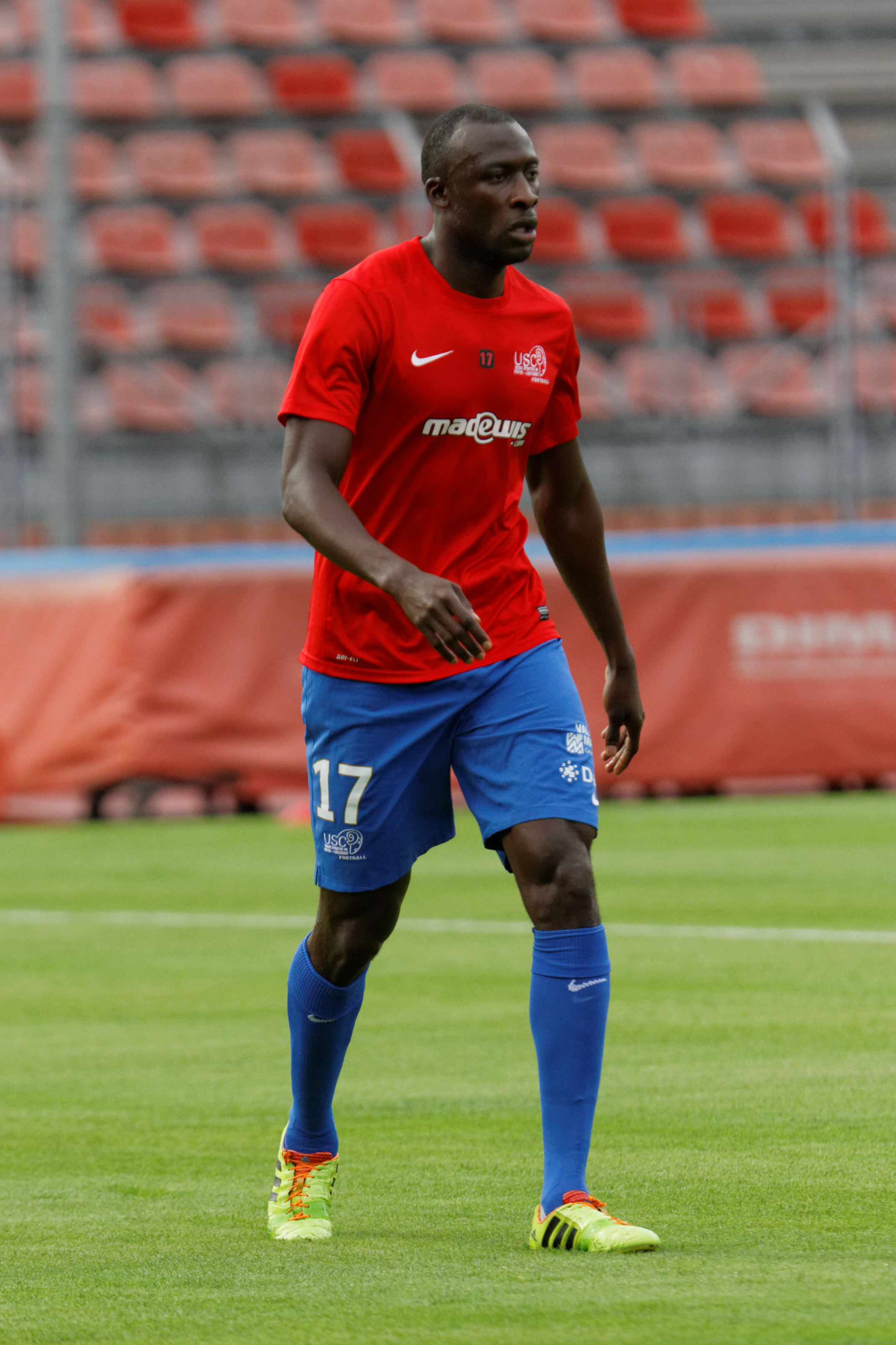 Créteil vs Châteauroux, 8th August 2014.